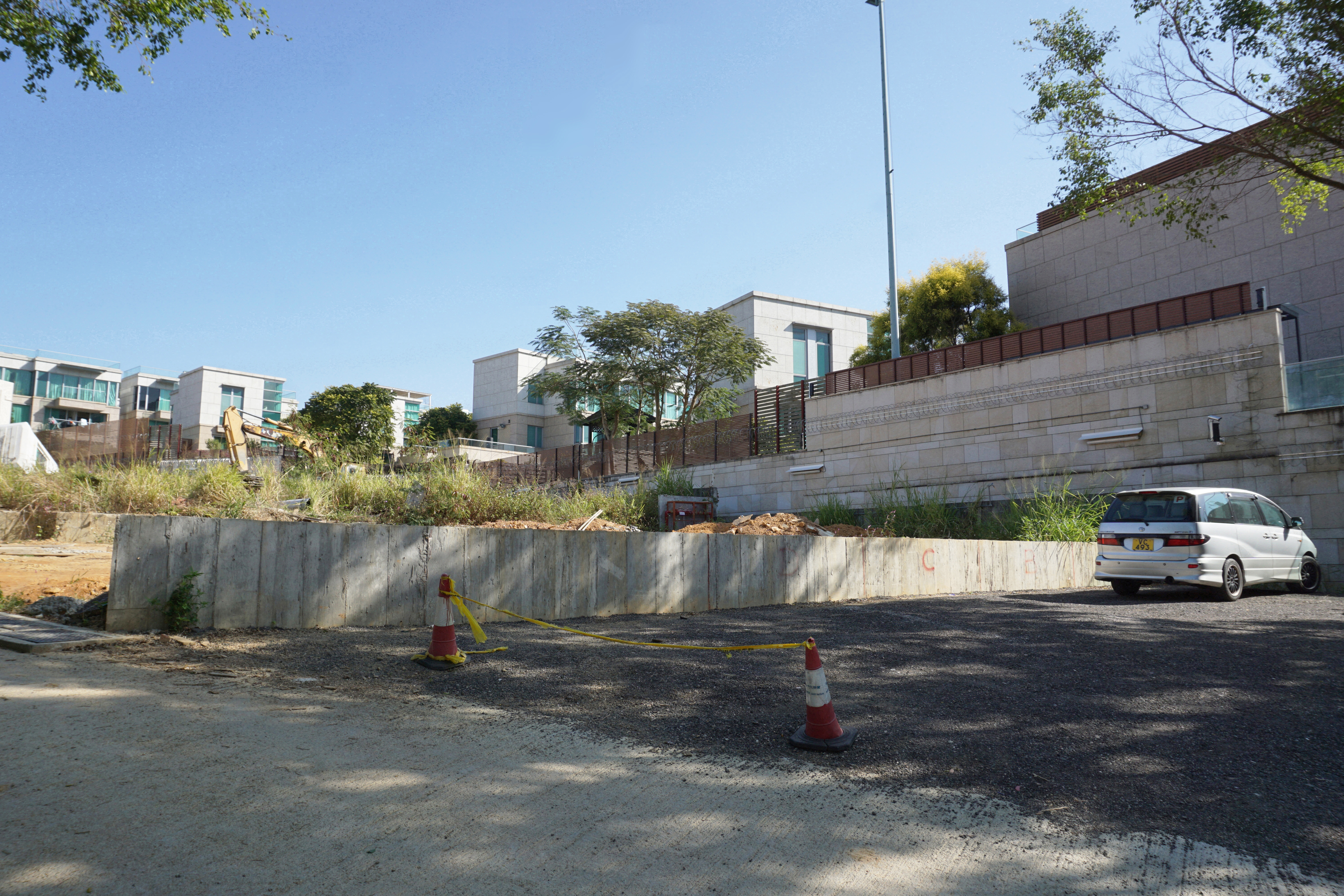 The Vineyard in Ngau Tam Mei, Hong Kong.